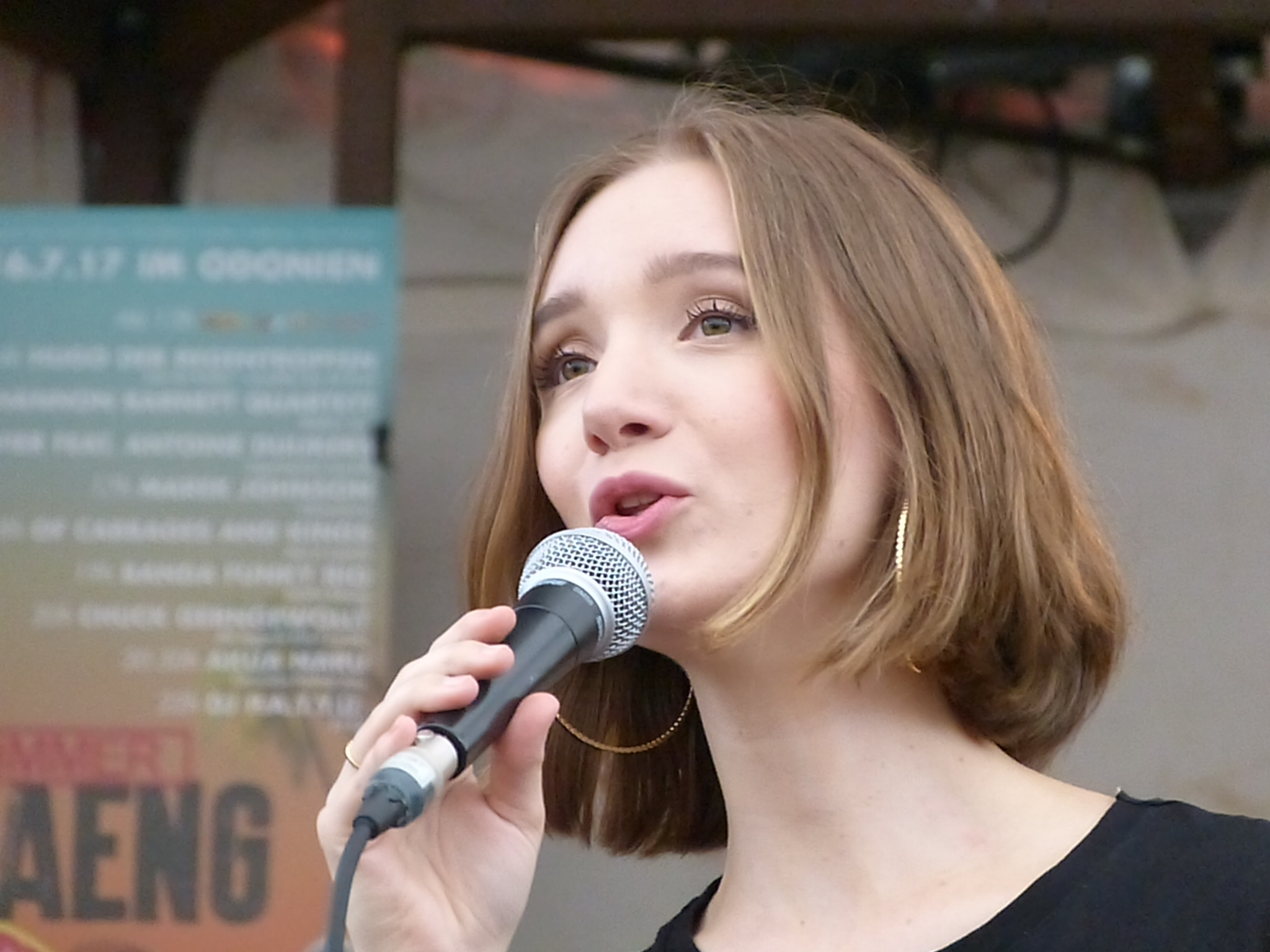 Laura Totenhagen (voc) in concert of the ensemble Of Cabbages and Kings with Sabeth Pérez, Rebekka Ziegler and Veronika Morscher (vocalists) at KLAENG Festival, Cologne, Germany, July 16th, 2017